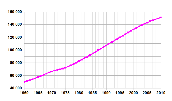 Bangladesh's population (1960-2010). Number of inhabitants in thousands.